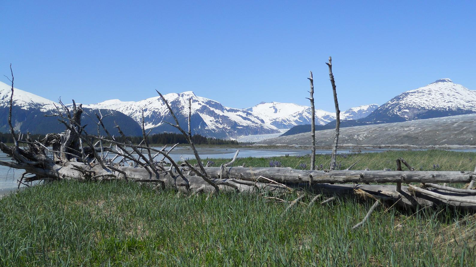 Taku Glacier (on the right) and Norris Glacier (middle)